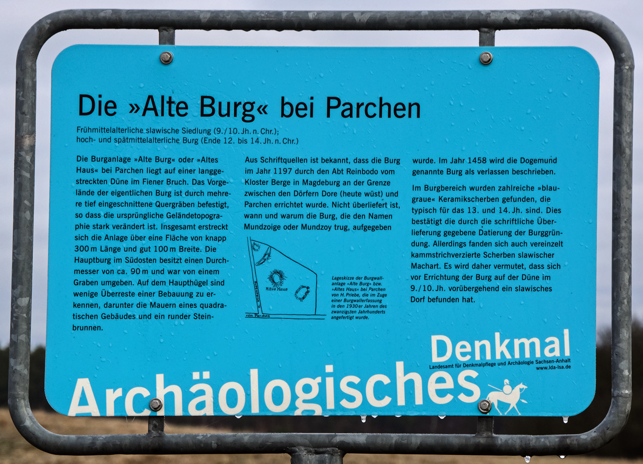 Information board Alte Burg east-southeast of Parchen